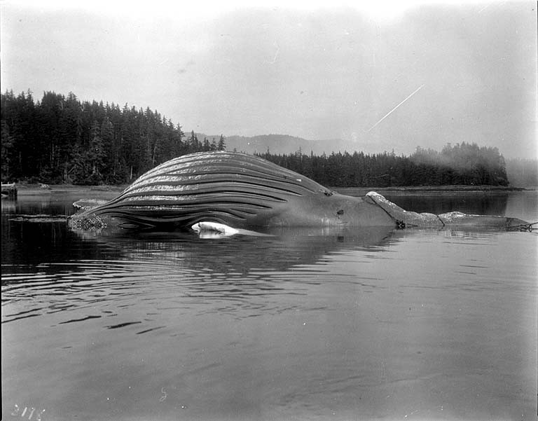 From John Cobb field notebook: Whale tied up at the float at Tyee Co. whaling station, Tyee, Aug. 25, 1910 Subjects (LCTGM): Whales--Alaska--Tyee Subjects (LCSH): Tyee Company; Whaling--Alaska--Tyee; Dead animals--Alaska--Tyee; Whaling stations--Alaska--Tyee